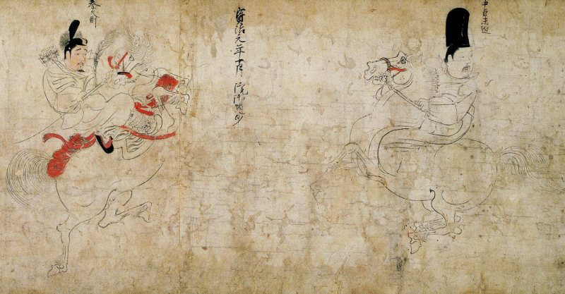 Portraits of imperial guardians, handscroll, ink and colour on paper, ACE1247, Okura Museum of Art, Tokyo, JAPAN Detail of the 3rd and 4th guards.